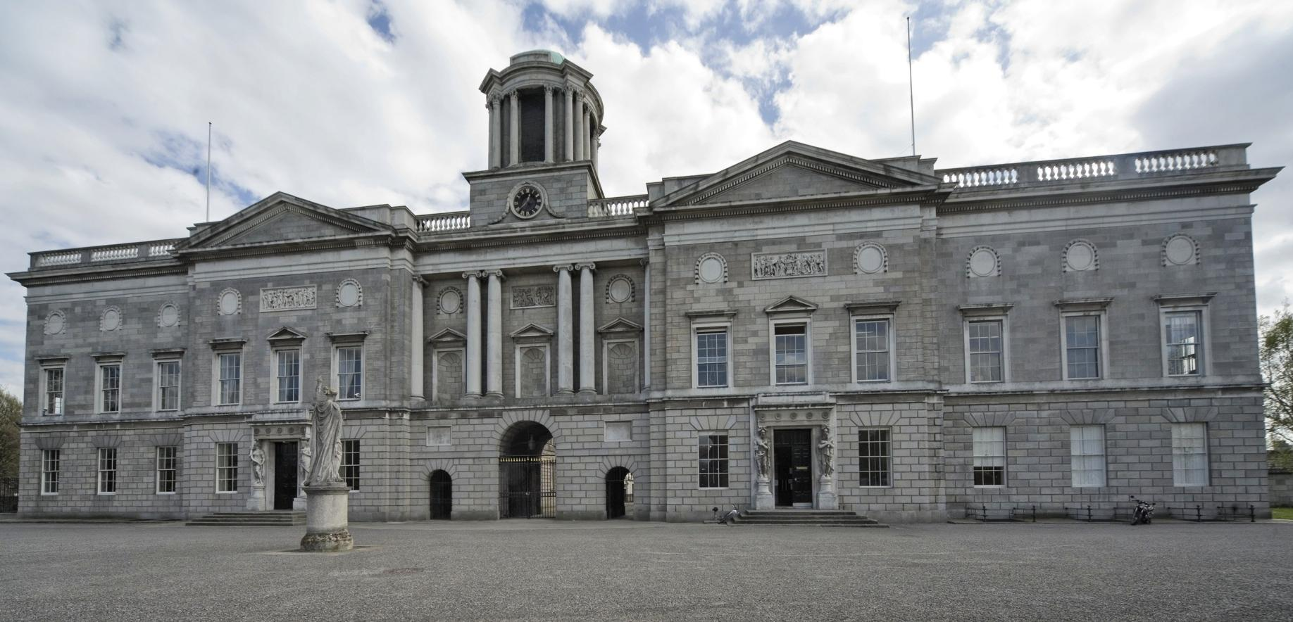 The King's Inns building in the in the North inner city of Dublin (Henrietta Street). Barristers or Lawyers are trained here.